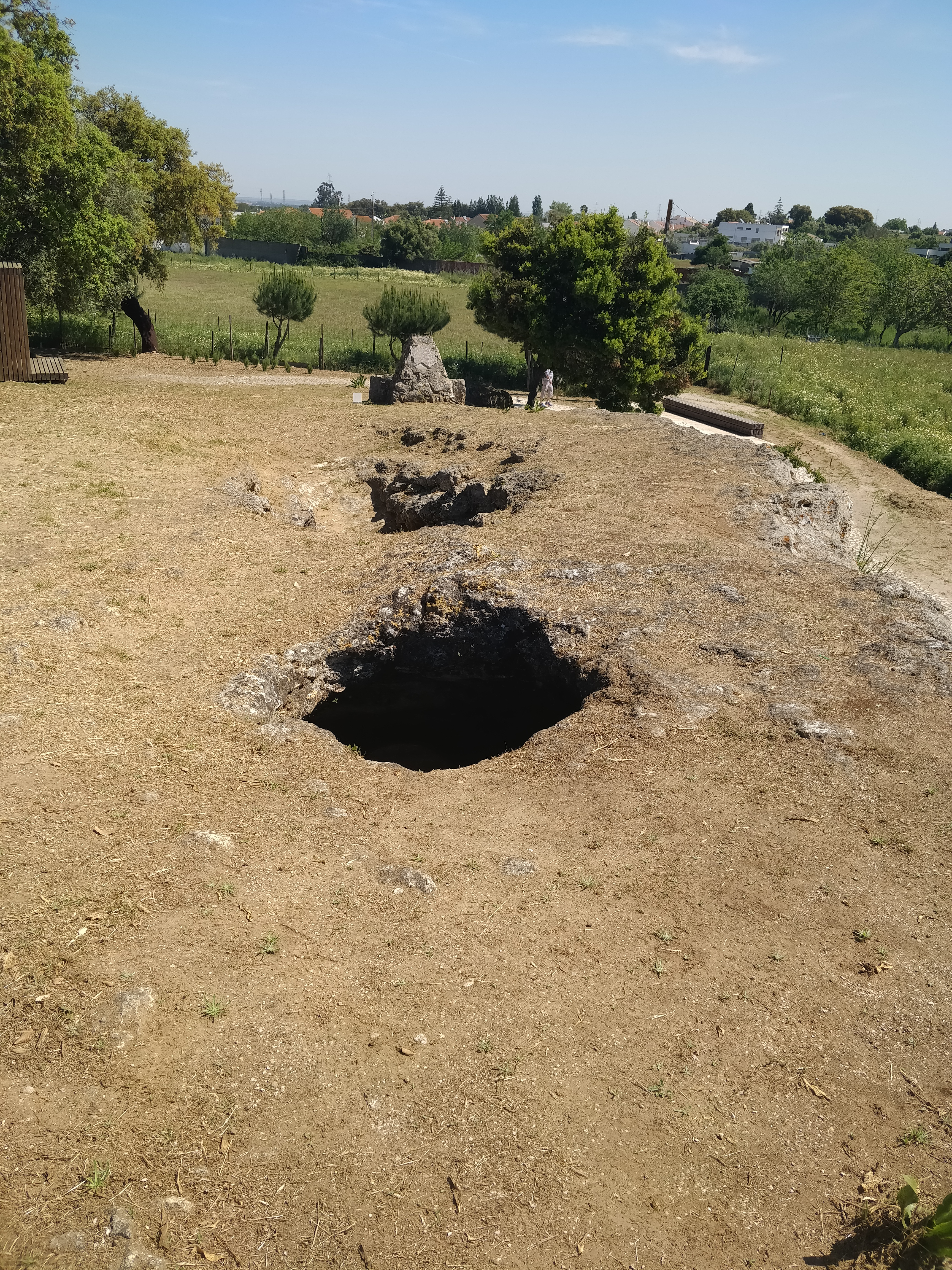 Artificial caves of Casal do Pardo, near Palmela, Setubal District, Portiugal, showing the holes deliberately left in the ceilings